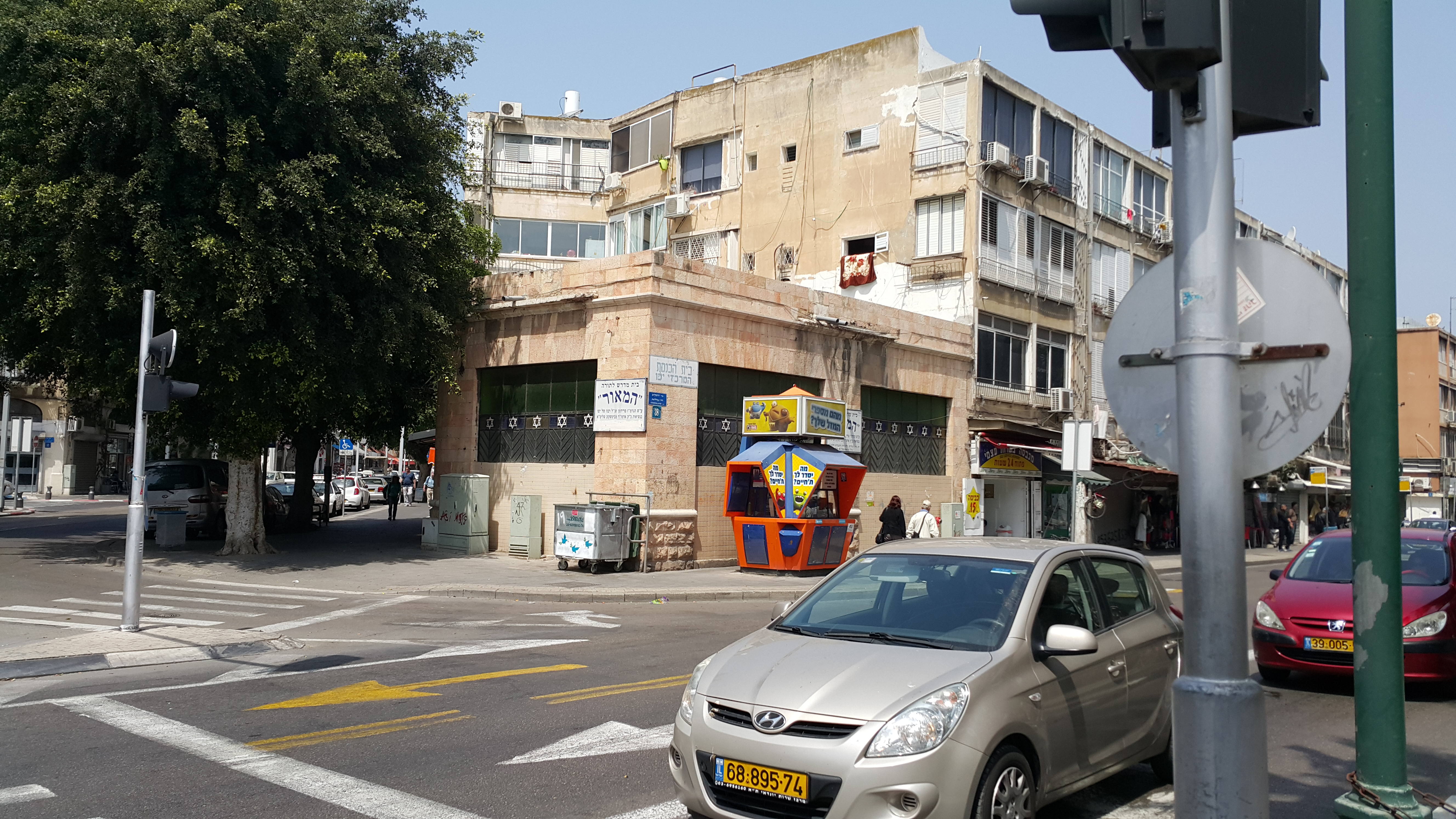 Jaffa, Yerushalayim blvd